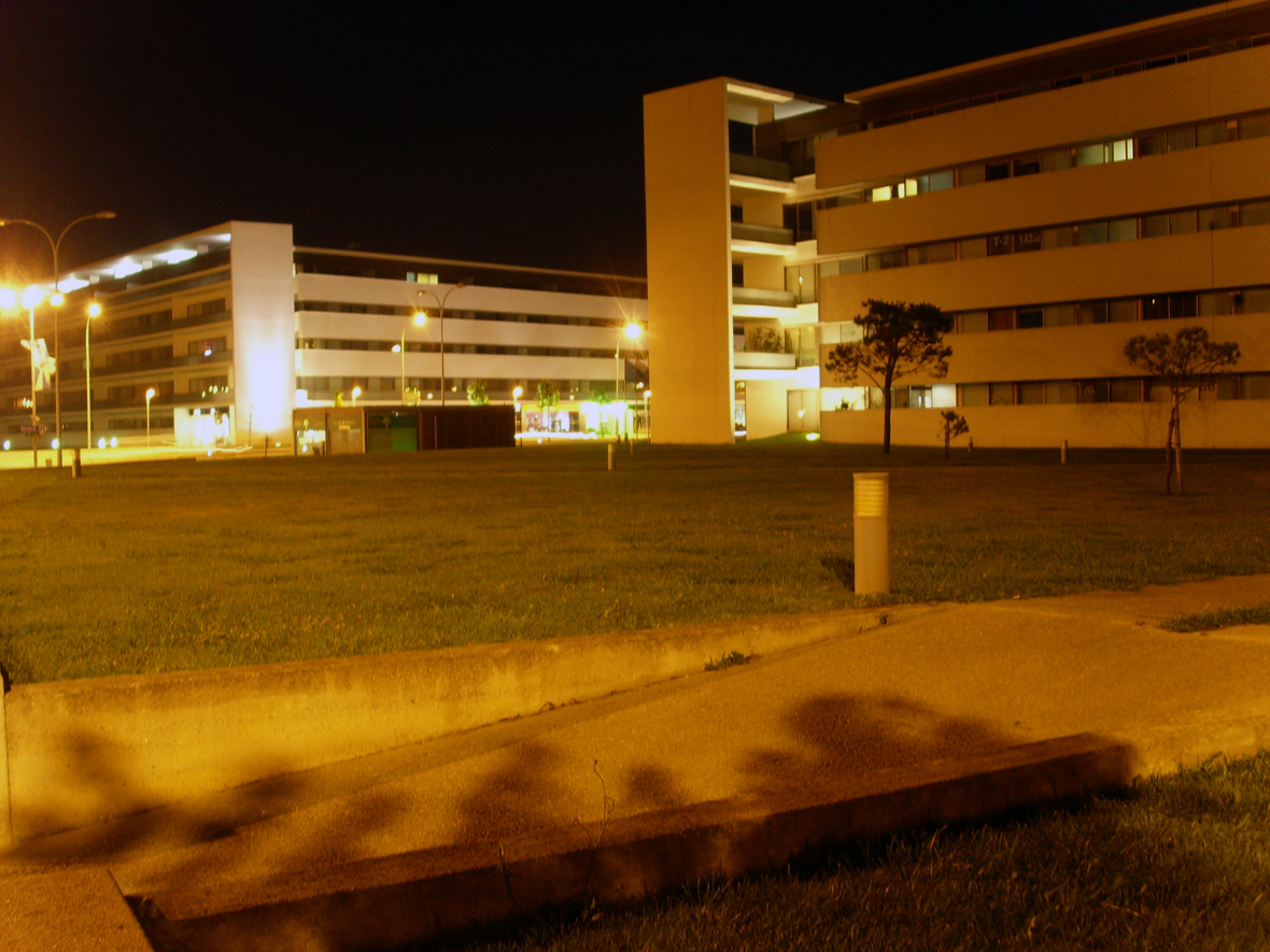 Architectural project for the gates of 25 de Abril Avenue in Povoa de Varzim